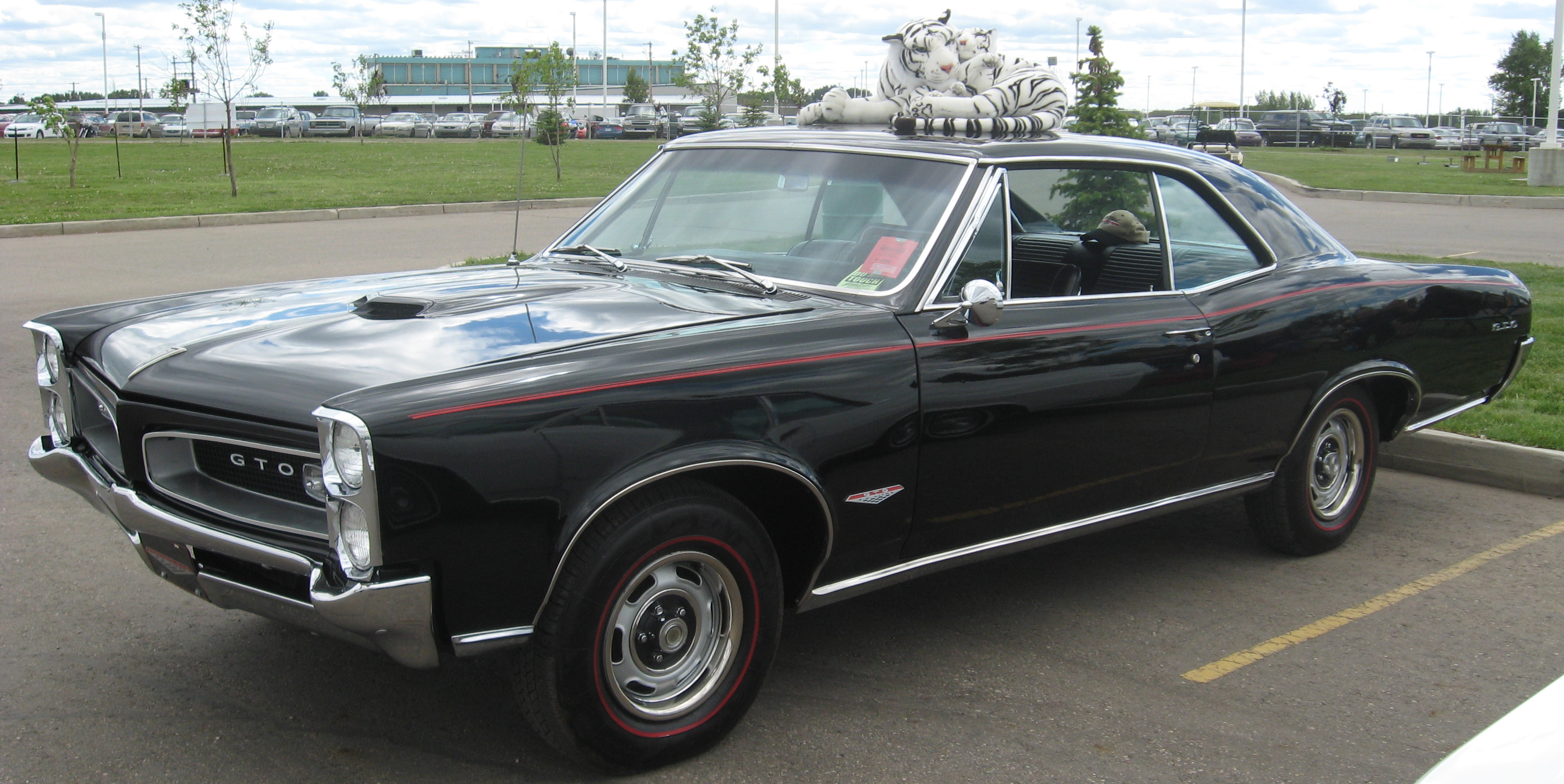 '65 gto, shot at local car show/swap meet NOTE '66 or '67 actually